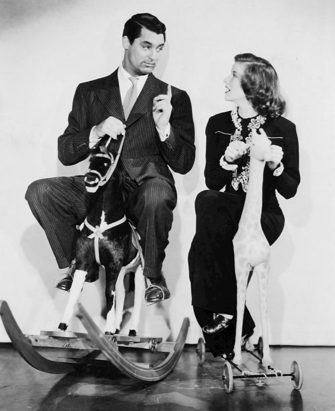 Photo of Cary Grant and Katharine Hepburn from the 1938 film Holiday. Note that the uploaded photo is larger and of better quality than the magazine photo. A search for renewal was done in publications for the years1965 and 1966. The only listings for Hollywood were for pattern books published by Conde Nast. There were no listings for the title "Hollywood" published by Fawcett Publications. There's no evidence of continuing copyright on the magazine.